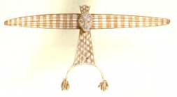 Drawing of a Maori kite by Charles Barraud in British Library